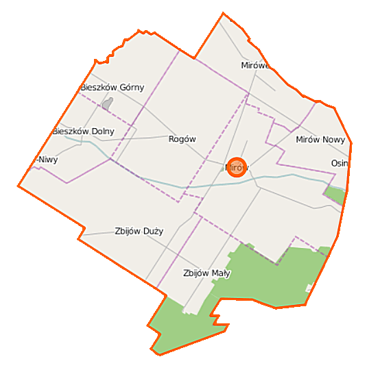 Map of Gmina Mirów, Poland This map of Mirów (gmina) was created from OpenStreetMap project data, collected by the community. This map may be incomplete, and may contain errors. Don't rely solely on it for navigation. Border coordinates51.234220.9341←↕→21.081751.1404